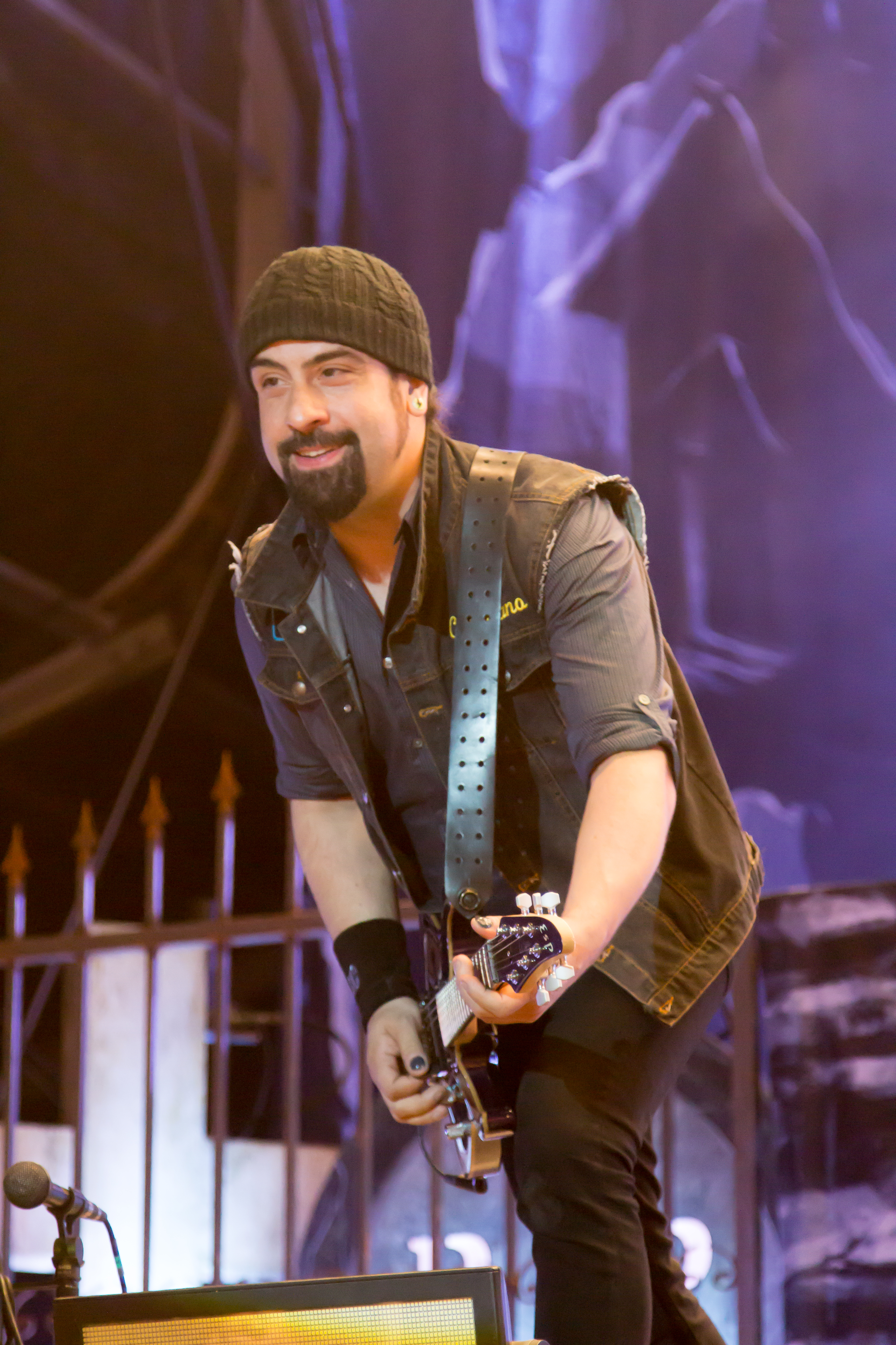 Rob Caggiano from Volbeat at Nova Rock 2014